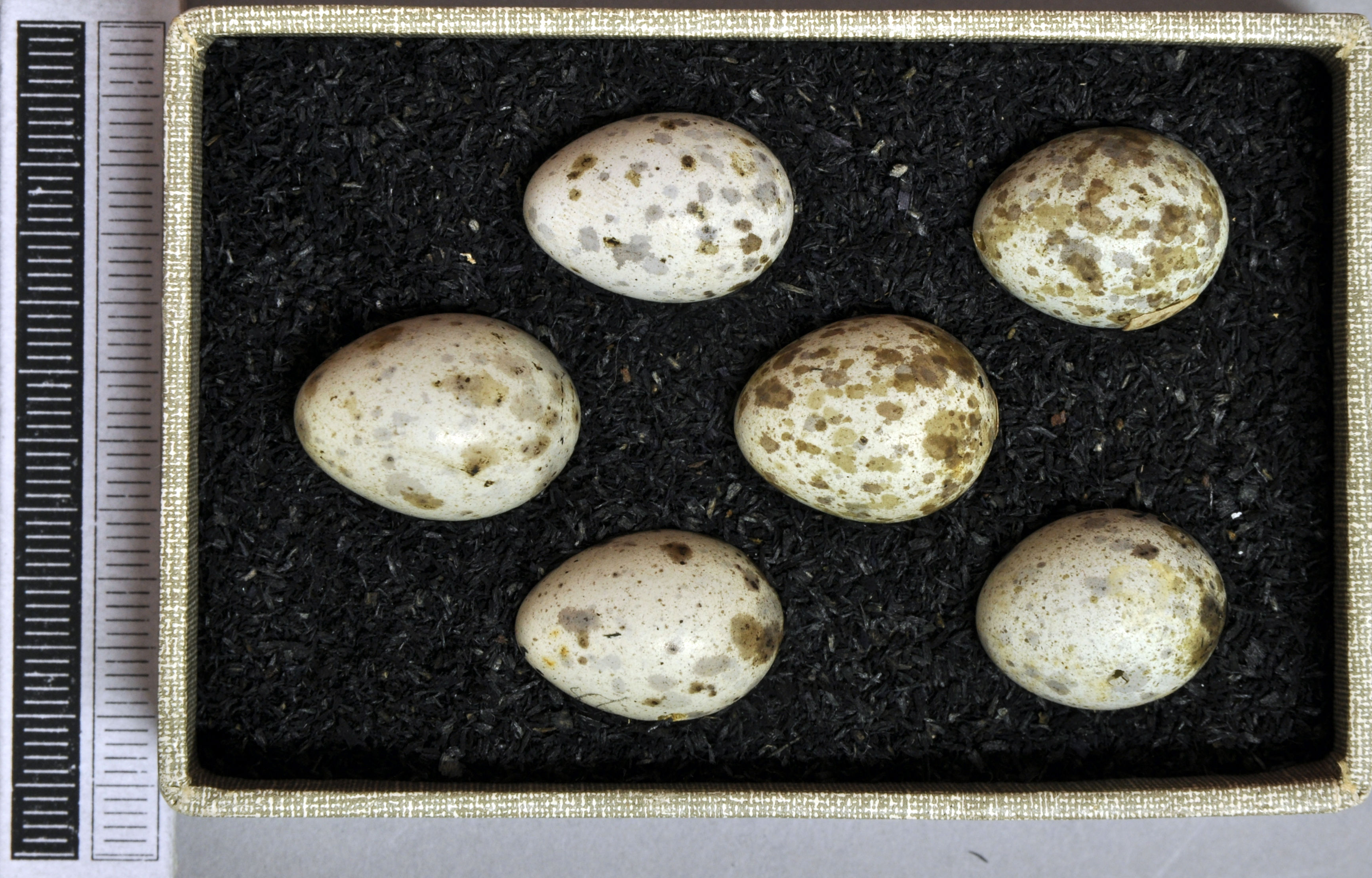 Marsh warbler Acrocephalus palustris , egg, Coll. Museum Wiesbaden